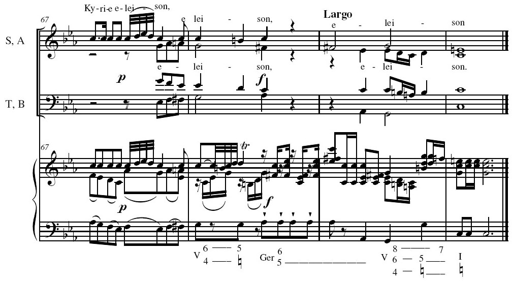 An example of a German sixth chord from Michael Haydn's (1737-1806) Requiem in C minor, first movement.